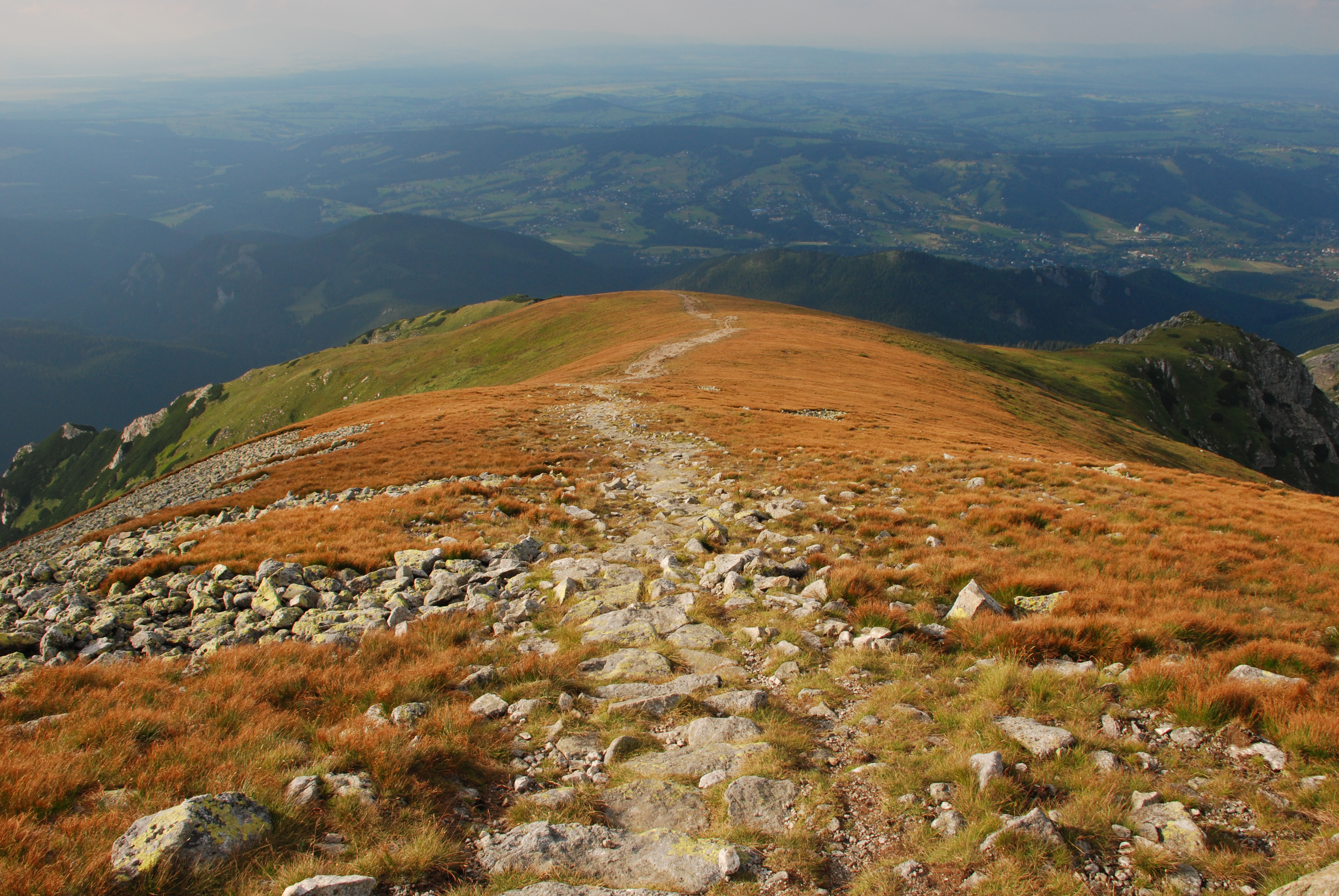 Czerwony Grzbiet